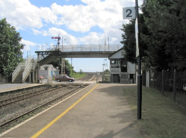 Ferryside railway station Original description: Ferryside Railway Station .. and level crossing, footbridge and manned signal box. This is the view south along the line to Llanelli.